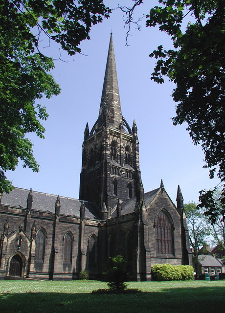 St. John's Church, Goole, East Riding of Yorkshire, England.The Parish Church of St. John the Evangelist at Goole, looking north-northeast from the churchyard west of Church Street.